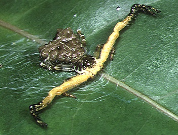 female Phrynarachne ceylonica protecting eggsac from Okinawa.